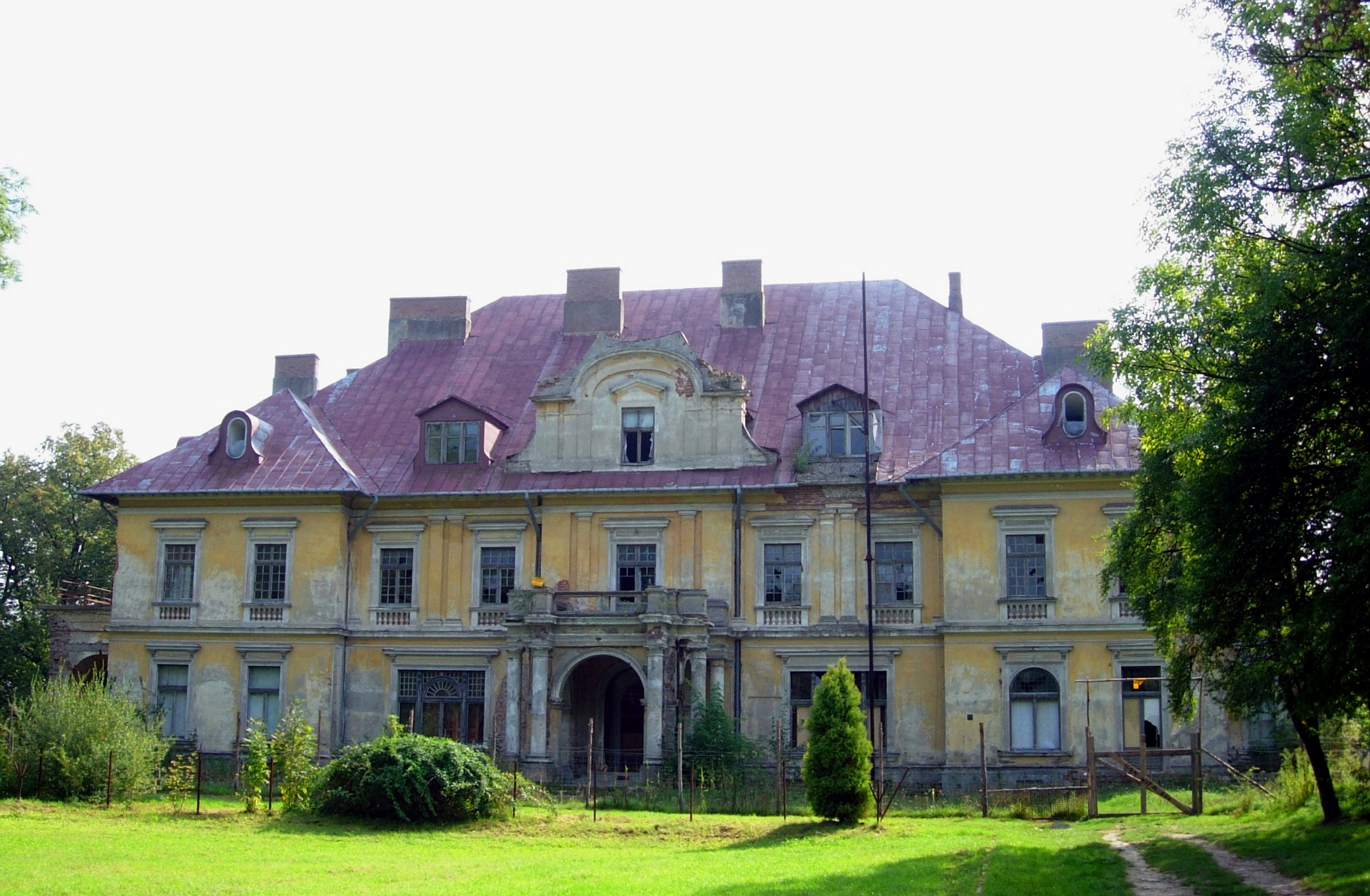 The palace of prince Drucki-Lubecki in Bałtów, Poland